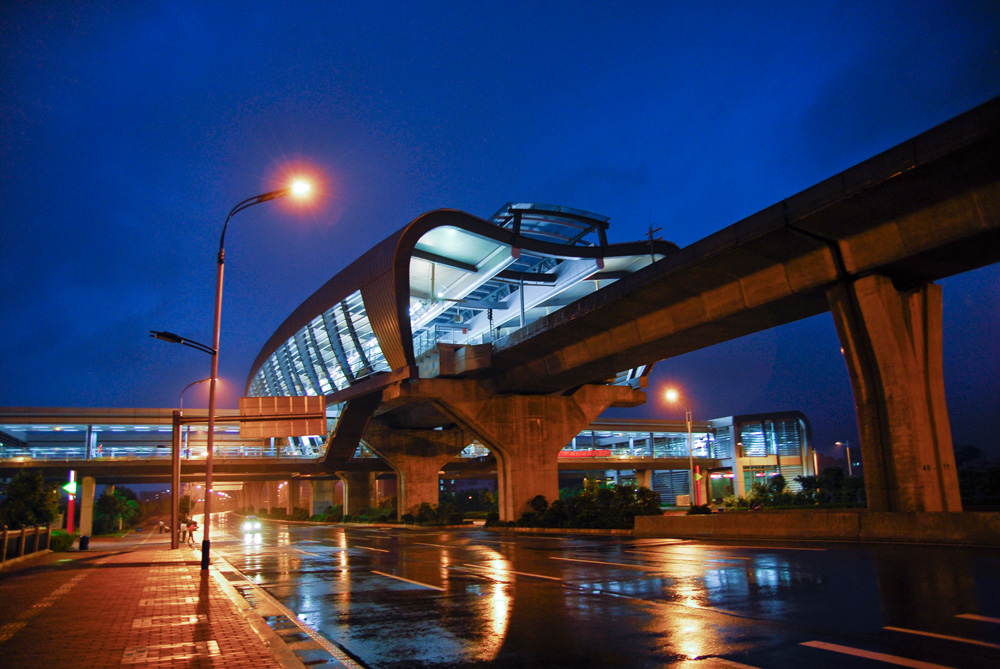 黄阁汽车城站Scenery in GhuangZhou, China